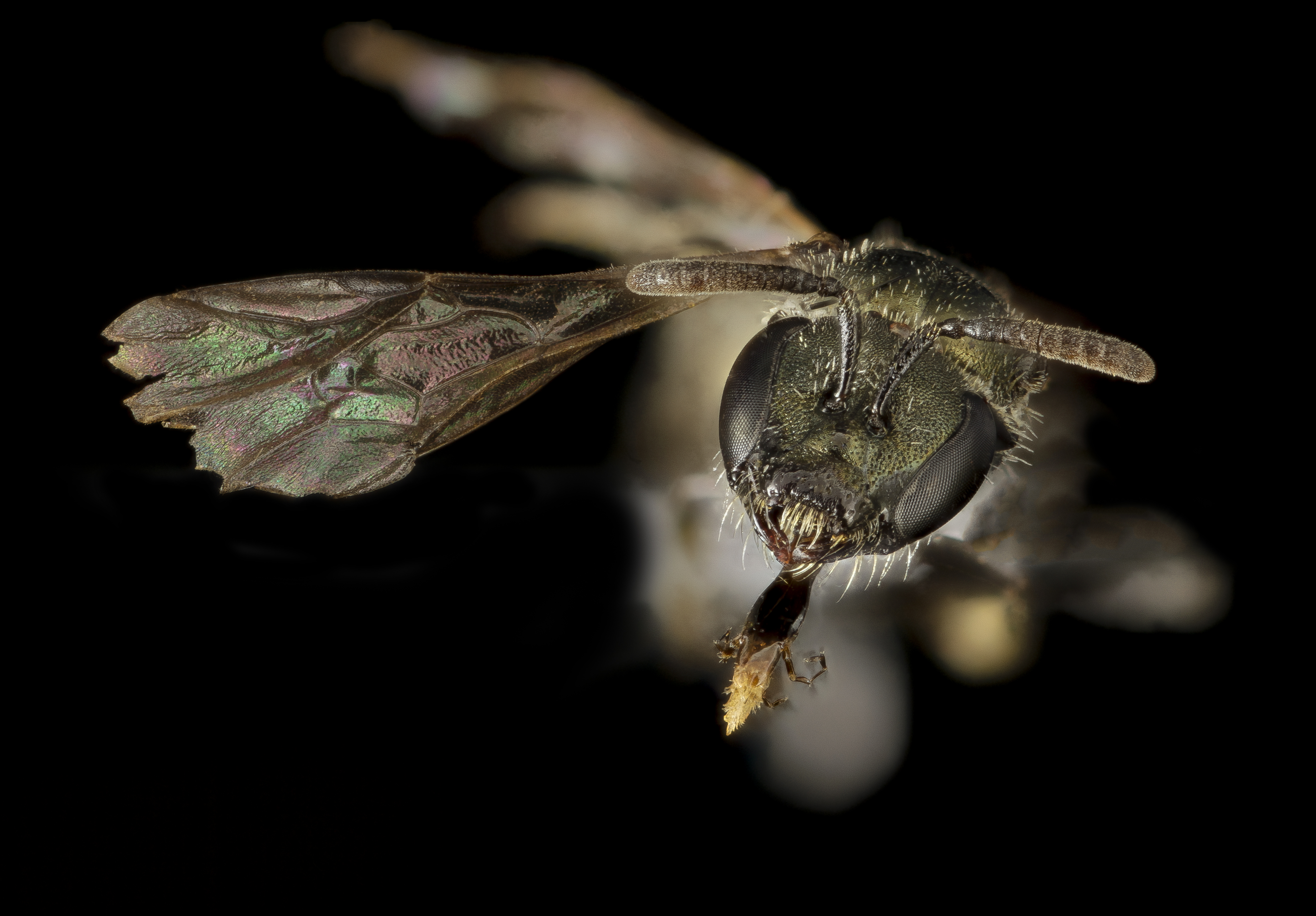 Grand Tetons have the grand Lasioglossum lilliputense. Very cute. Photography by Brooke Alexander. 03:01, 11 April 2016 (UTC)03:01, 11 April 2016 (UTC) 0 03:01, 11 April 2016 (UTC)03:01, 11 April 2016 (UTC) All photographs are public domain, feel free to download and use as you wish. Photography Information: Canon Mark II 5D, Zerene Stacker, Stackshot Sled, 65mm Canon MP-E 1-5X macro lens, Twin Macro Flash in Styrofoam Cooler, F5.0, ISO 100, Shutter Speed 200 Beauty is truth, truth beauty - that is all Ye know on earth and all ye need to know " Ode on a Grecian Urn" John Keats You can also follow us on Instagram account USGSBIML Want some Useful Links to the Techniques We Use? Well now here you go Citizen: Art Photo Book: Bees: An Up-Close Look at Pollinators Around the World Basic USGSBIML set up: USGSBIML Photoshopping Technique: Note that we now have added using the burn tool at 50% opacity set to shadows to clean up the halos that bleed into the black background from "hot" color sections of the picture. PDF of Basic USGSBIML Photography Set Up: ftp://ftpext.usgs.gov/pub/er/md/laurel/Droege/How%20to%20Take%20MacroPhotographs%20of%20Insects%20BIML%20Lab2.pdf Google Hangout Demonstration of Techniques: or Excellent Technical Form on Stacking: Contact information: Sam Droege 301 497 5840